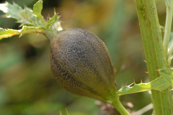 Urophora cardui from Commanster, Belgian High Ardennes .